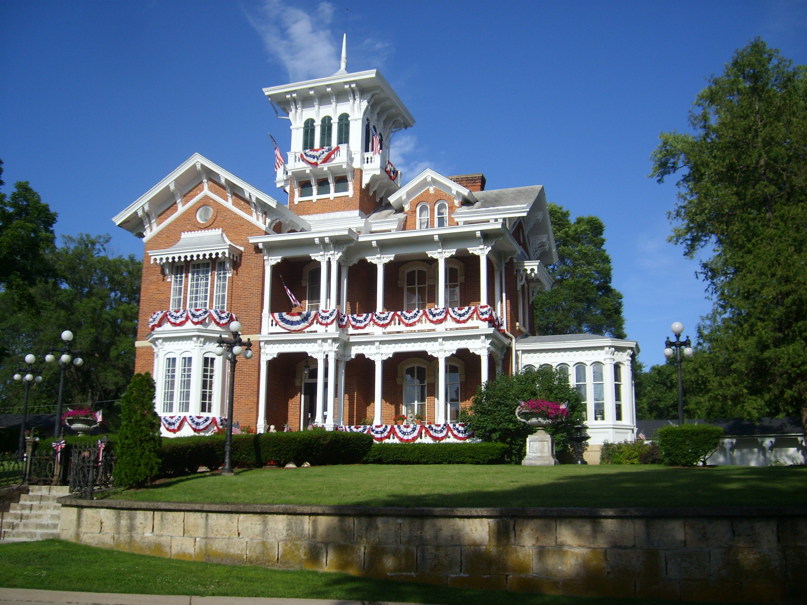 Galena, IL: The J. Russel Jones House, known as the Belvedere Mansion, 1008 Park Avenue